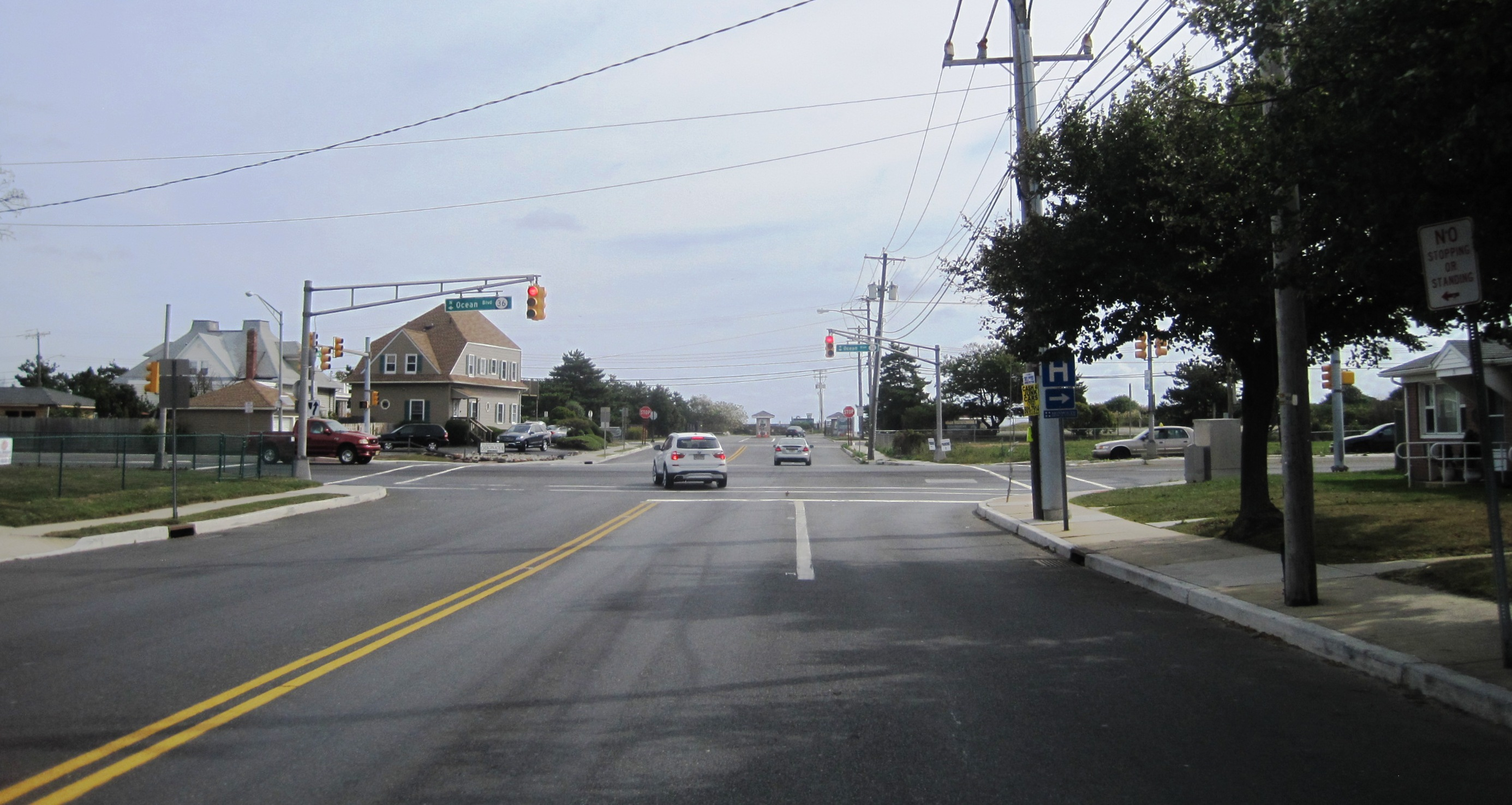 Photo showing East Long Branch, New Jersey, an unincorporated community within Long Branch. Photo taken along eastbound Joline Avneue (New Jersey Route 36) at Ocean Boulevard (Route 36 to the left).